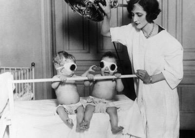 Rickets UV treatment 1925